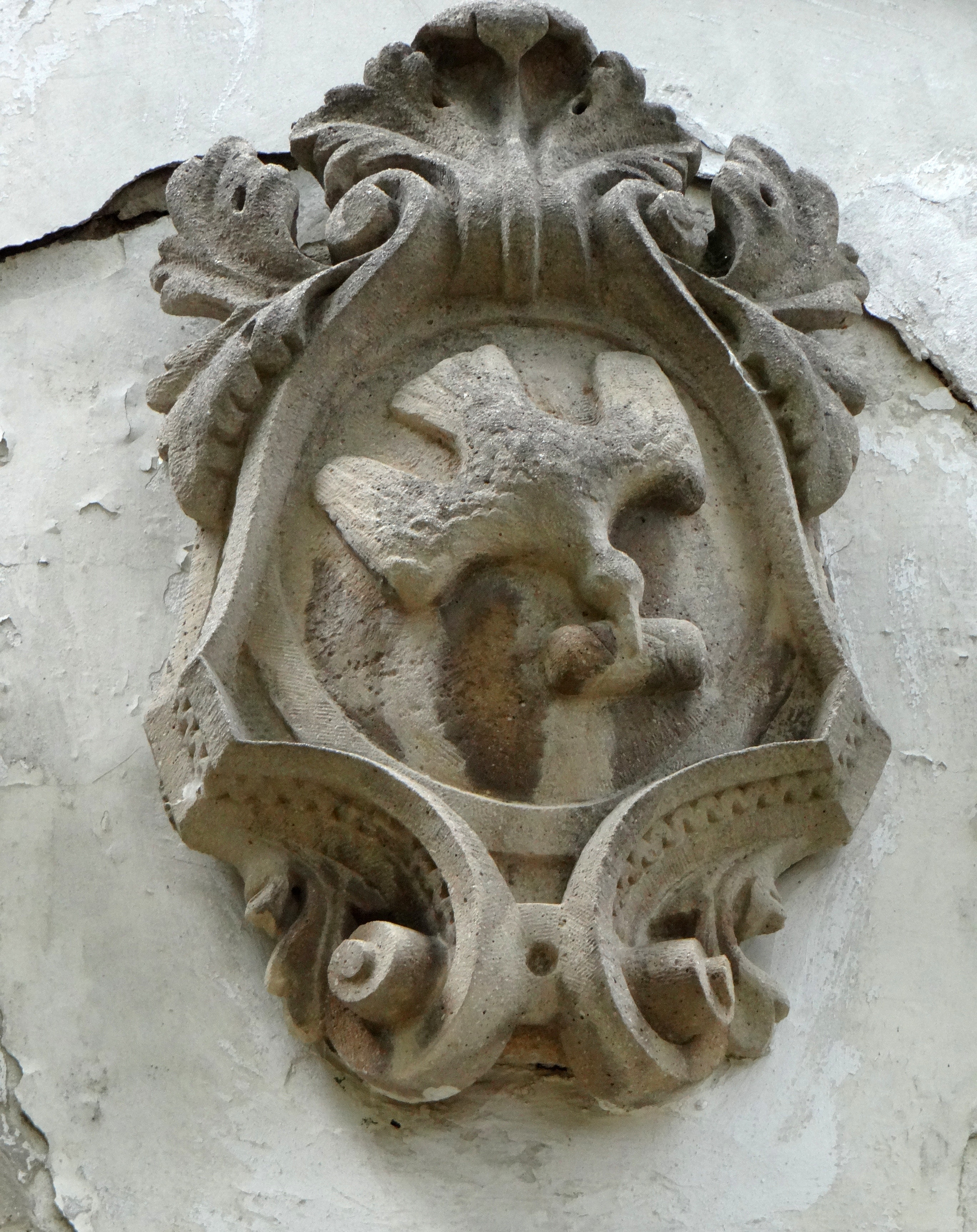 Pálos Monastery, Diósgyőr, Miskolc, Hungary This is a photo of a monument in Hungary. Identifier: 2980